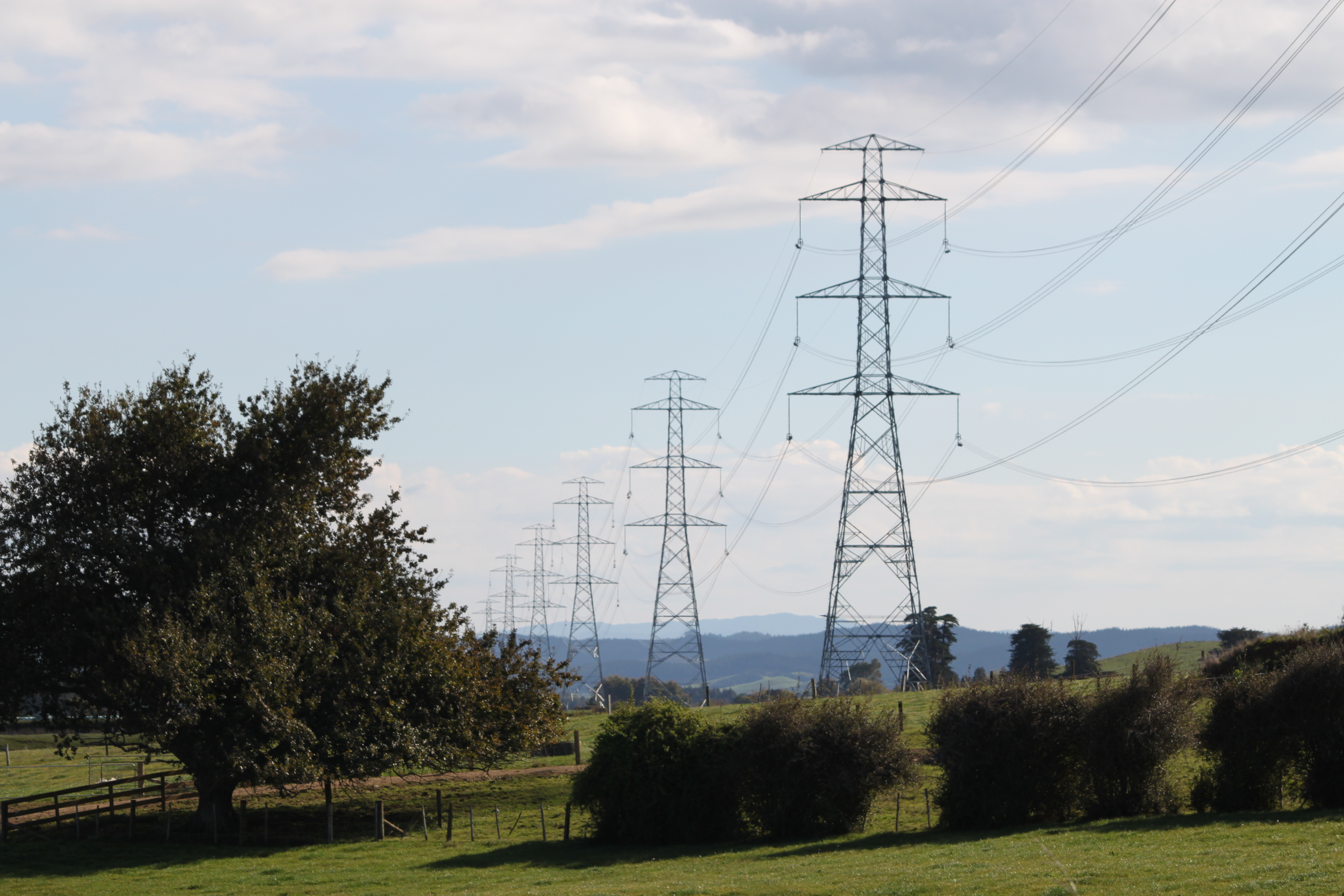 Transpower's new Whakamaru to Brownhill Road 400 kV transmission line. Looking North from Taniwha Road near Te Kauwhata.